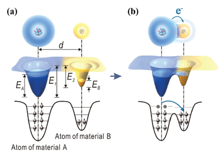 The overlapped electron-cloud (OEC) model for general case contact-electrification.